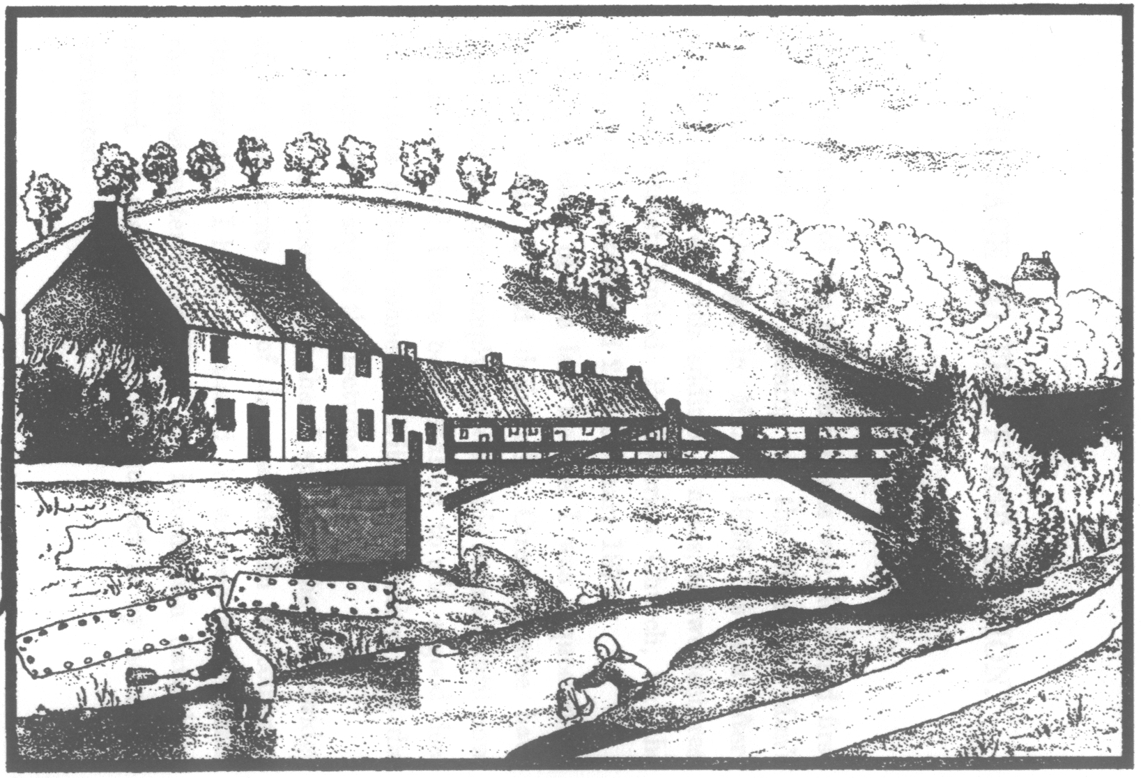 View Of Part Of Old Stoke Bridge (Looking West) [c.1750]. The woman on the left is bleaching bed linen, held down with stones, in the sun. "Oh, water o’ Leith! Oh, water o' Leith, Where the girls go down to wash their teeth" -- William McGonagall